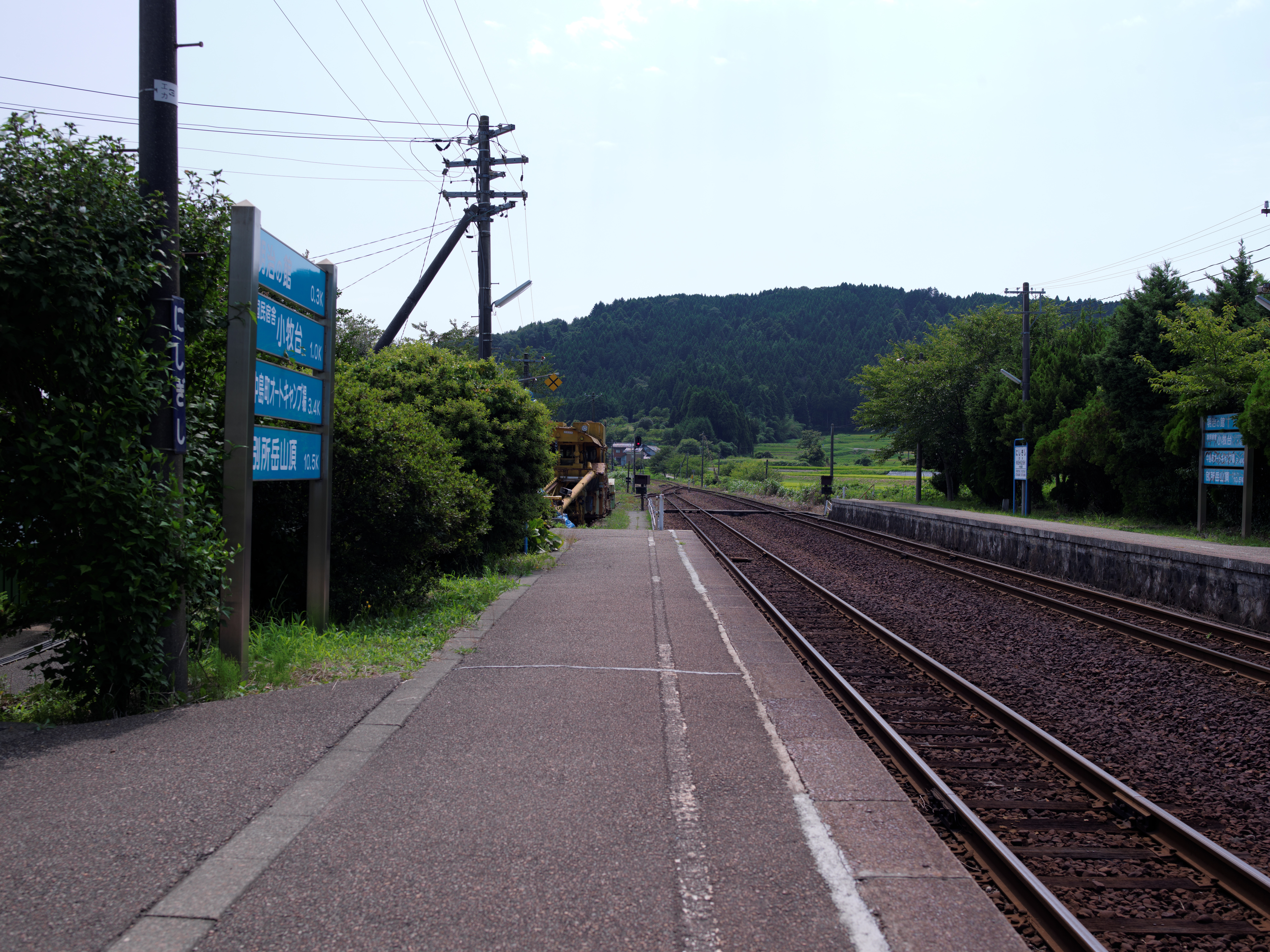 HASSELBLAD 500C/M / Carl Zeiss CF Distagon 4/50 T* FLE / HASSELBLAD CFV-50 / HASSELBLAD Phocus 2.6.4